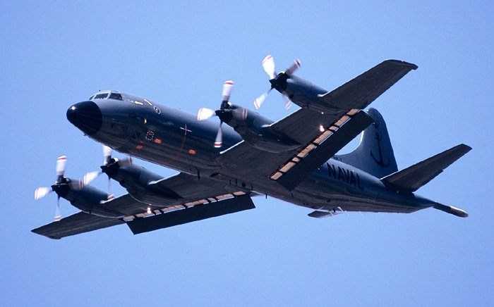 A Chilenean Lockheed P-3B Orion.